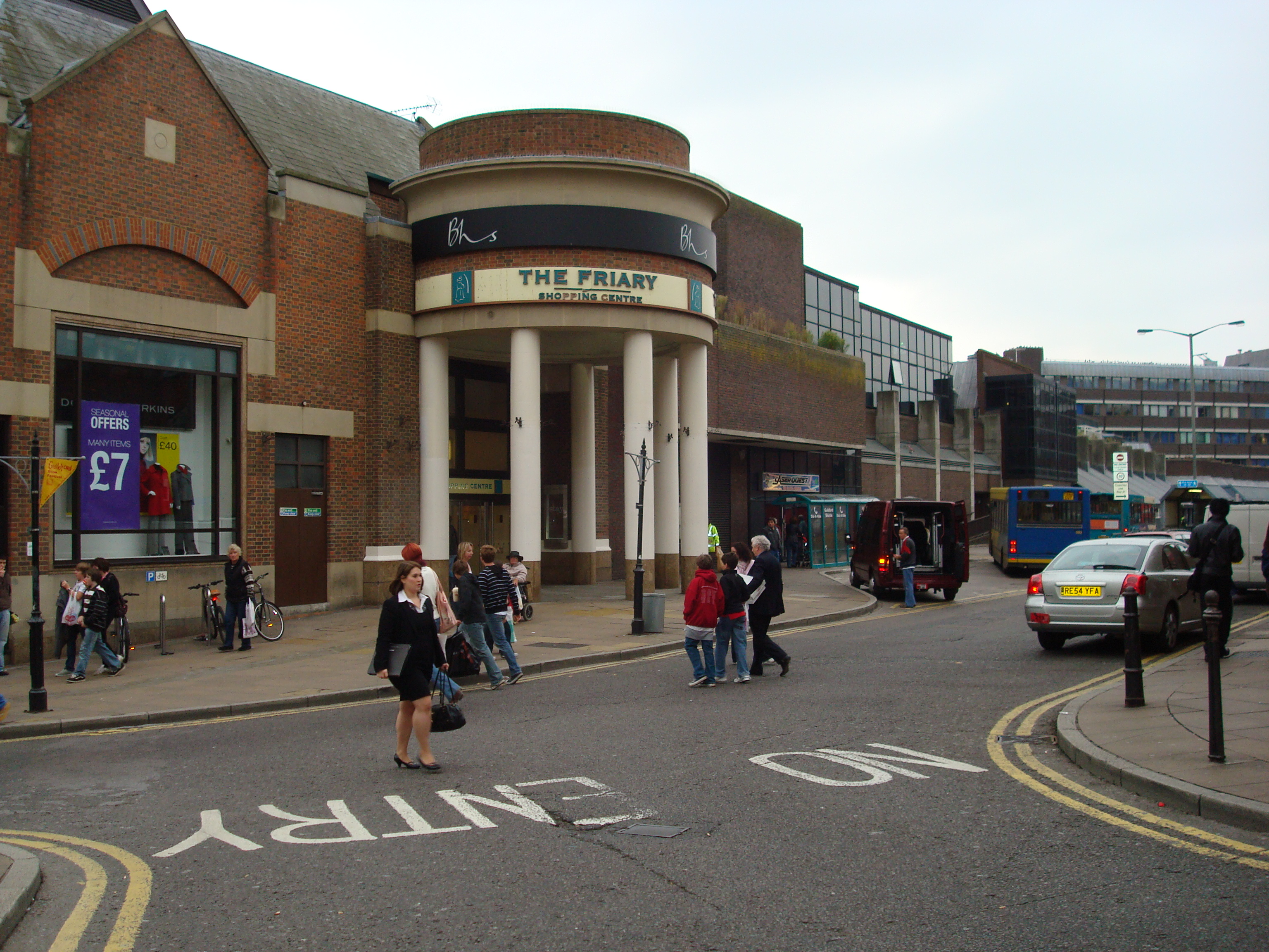 S Knights, my pic, Oct 2007